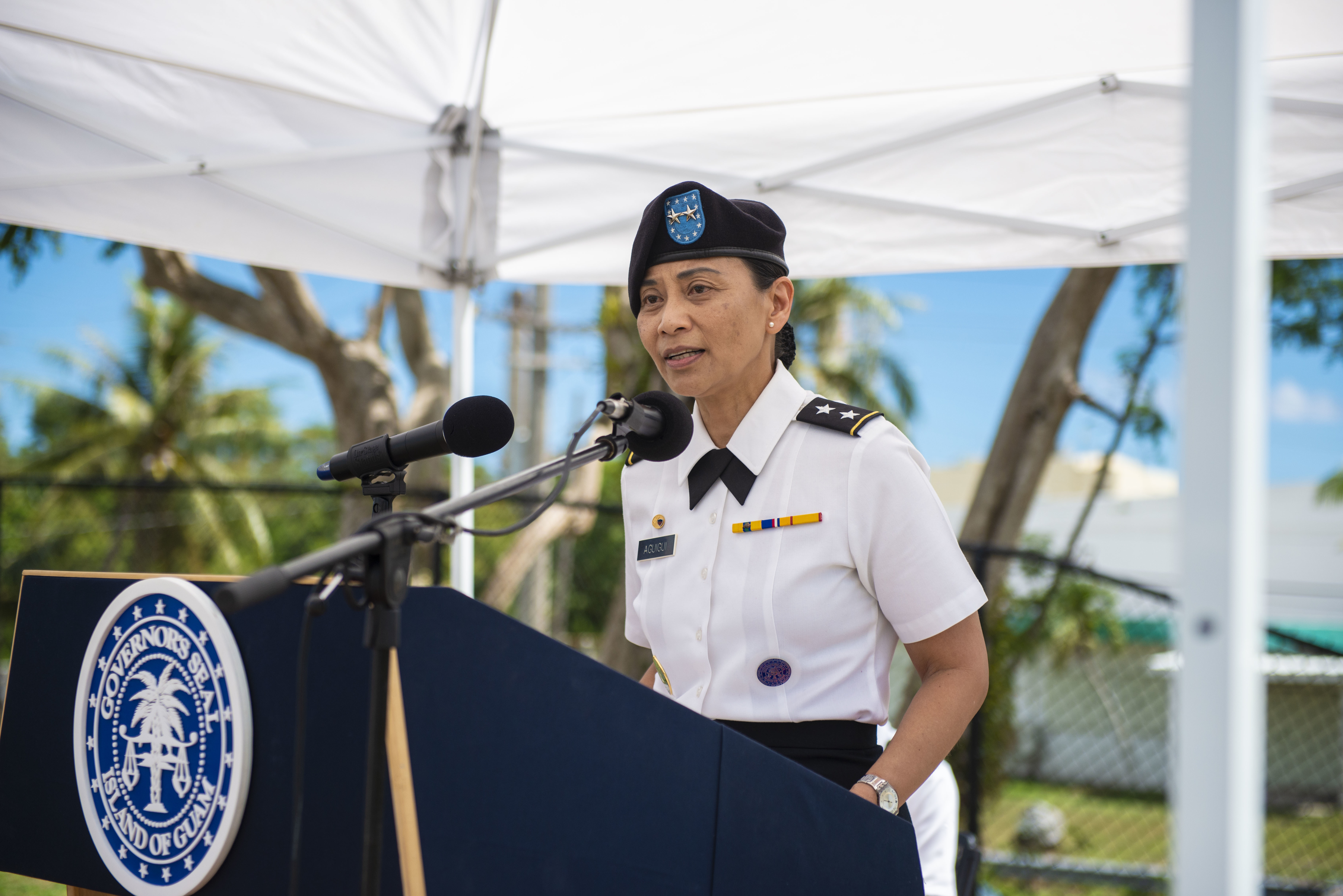 PITI, Guam (May 27, 2019) - Guam National Guard Adjutant General Lt. Col. Esther Aguigui delivers remarks during a Memorial Day ceremony at the Guam Veterans Cemetery in Piti May 27. During the ceremony, local and military residents honored the countless service members, who gave their lives in service to the nation. (U.S. Navy photo by Alana Chargualaf)